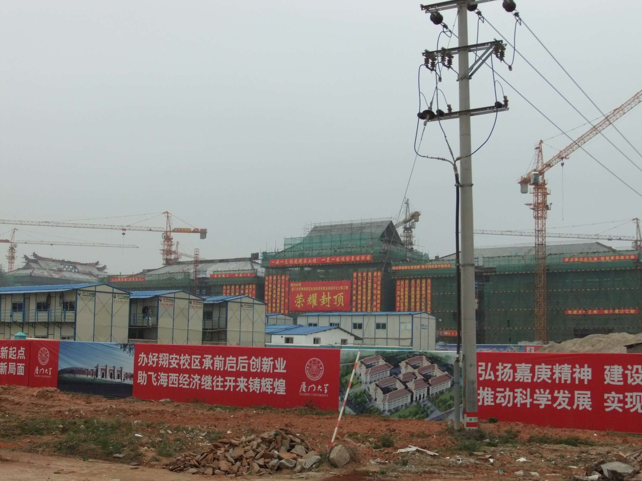 Construction of the new Xiang'an Campus of Xiamen University. It is located Hwy S201 in the southeastern part of Xing'an District. The little buildings in front are temporary housing for the construction workers.